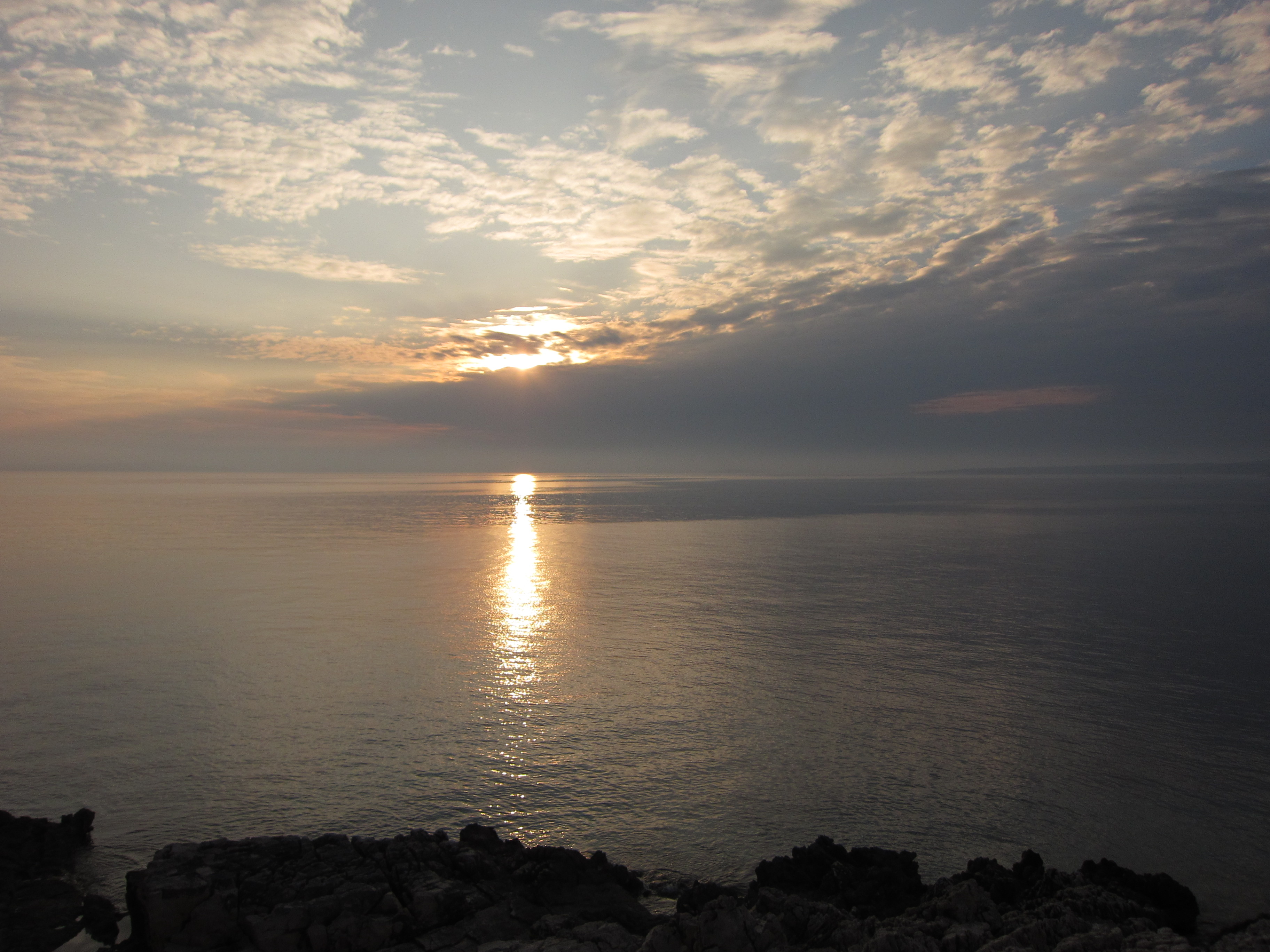 Sunset in Mali of Lošinj, Croatia.